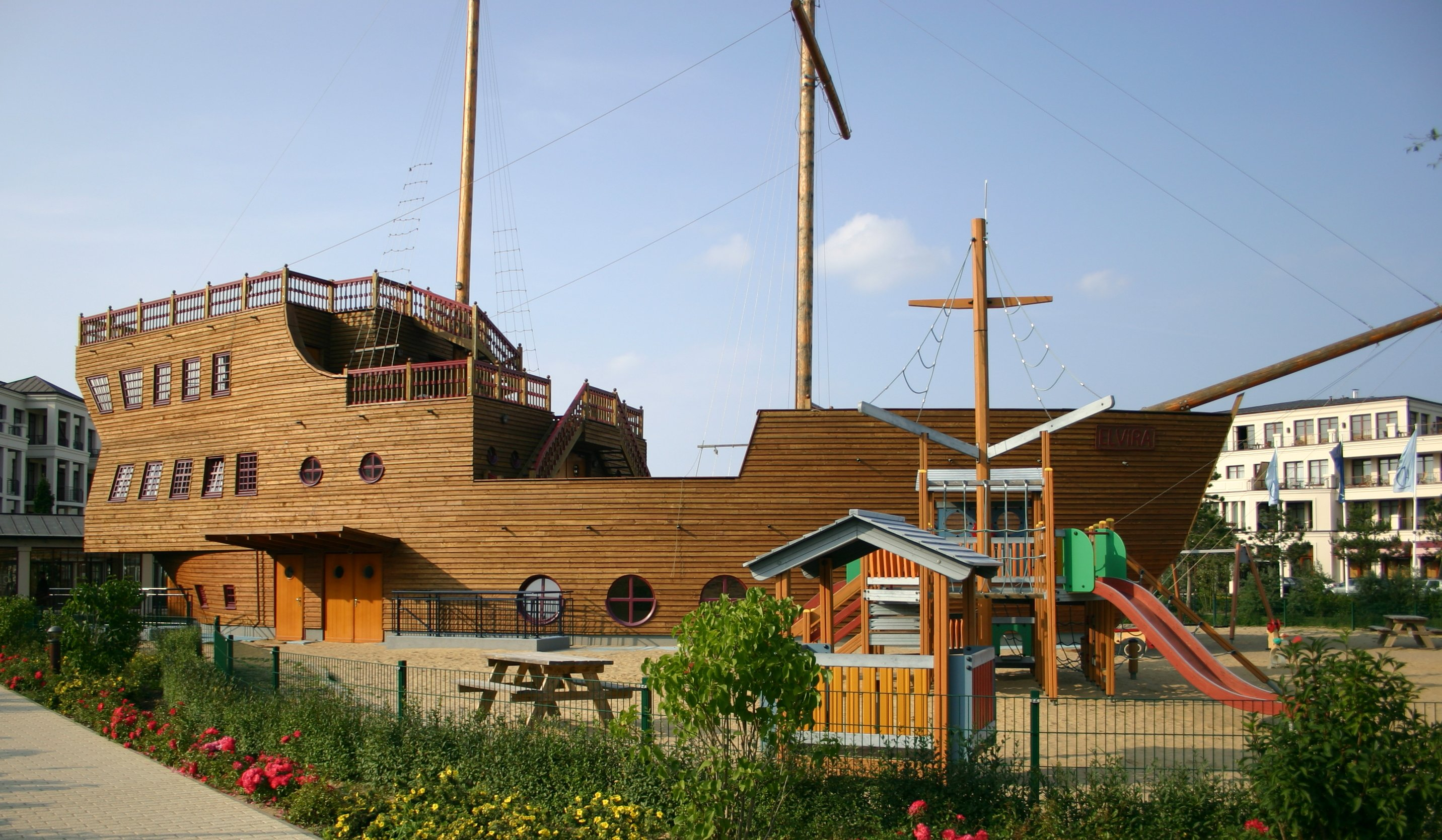 Playground Yacht Harbour Residence "Yachthafenresidenz Hohe Düne" at the Baltic Sea in Rostock (Mecklenburg), Germany